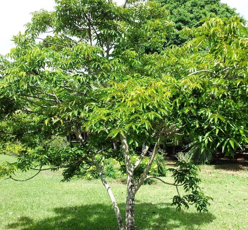 Poupartia borbonica tree - Mauritius